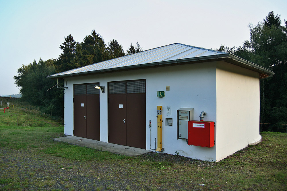 Emergency exit of the Günterscheid Tunnel